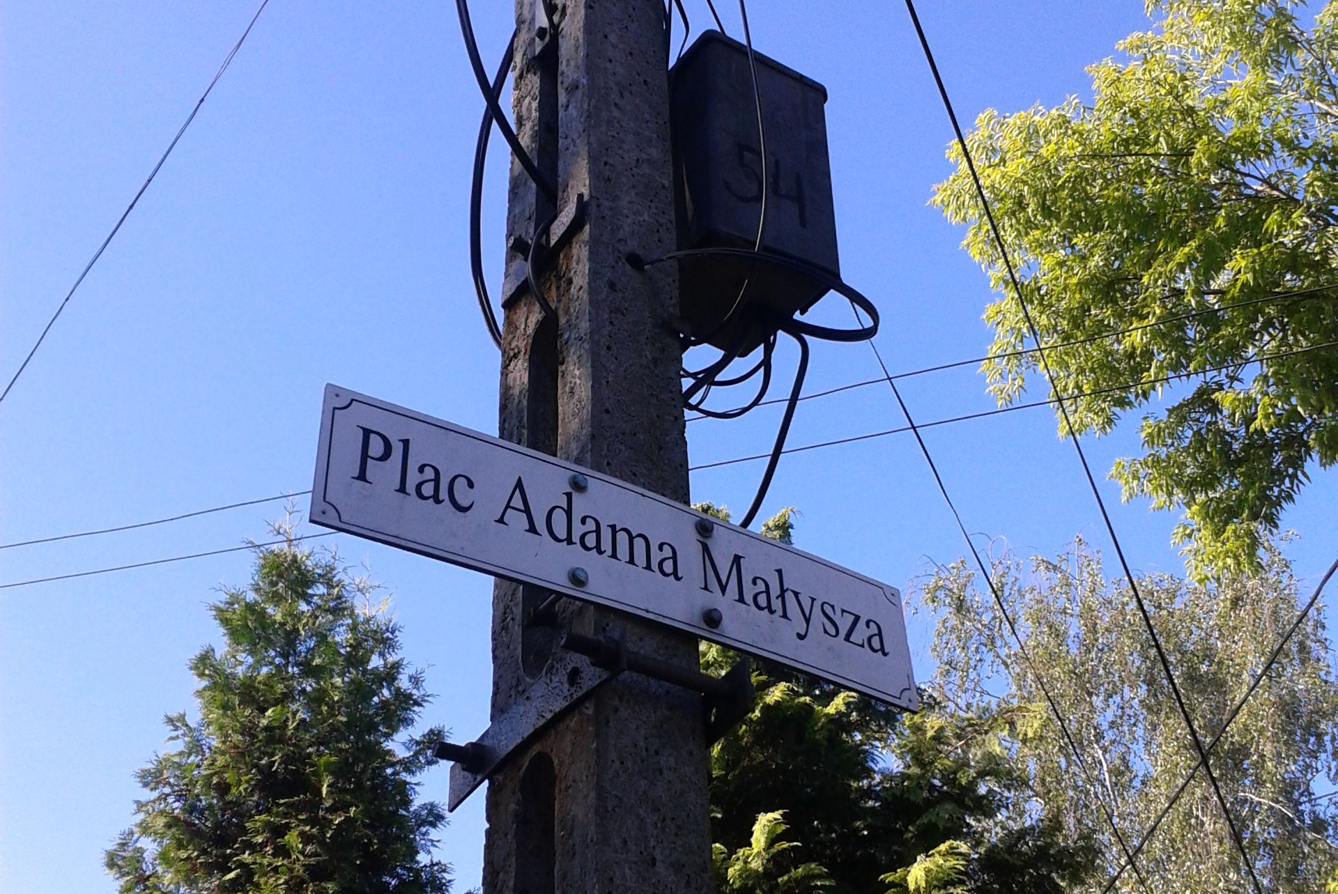 Adam Małysz square. Warsaw, Bemowo. Named around 2009/2010, unnoficial.